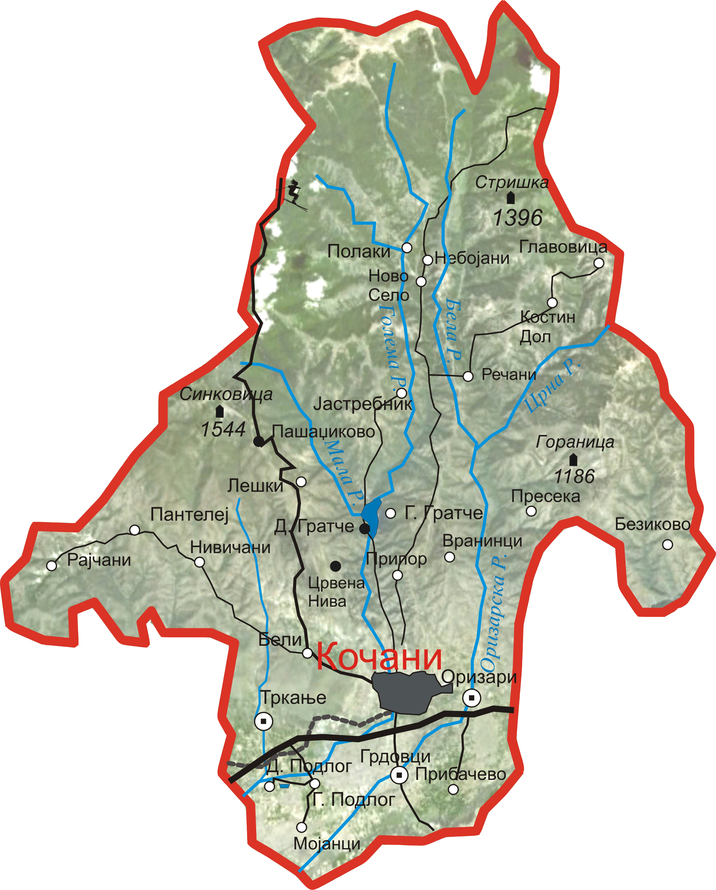 Municipality of Kočani map